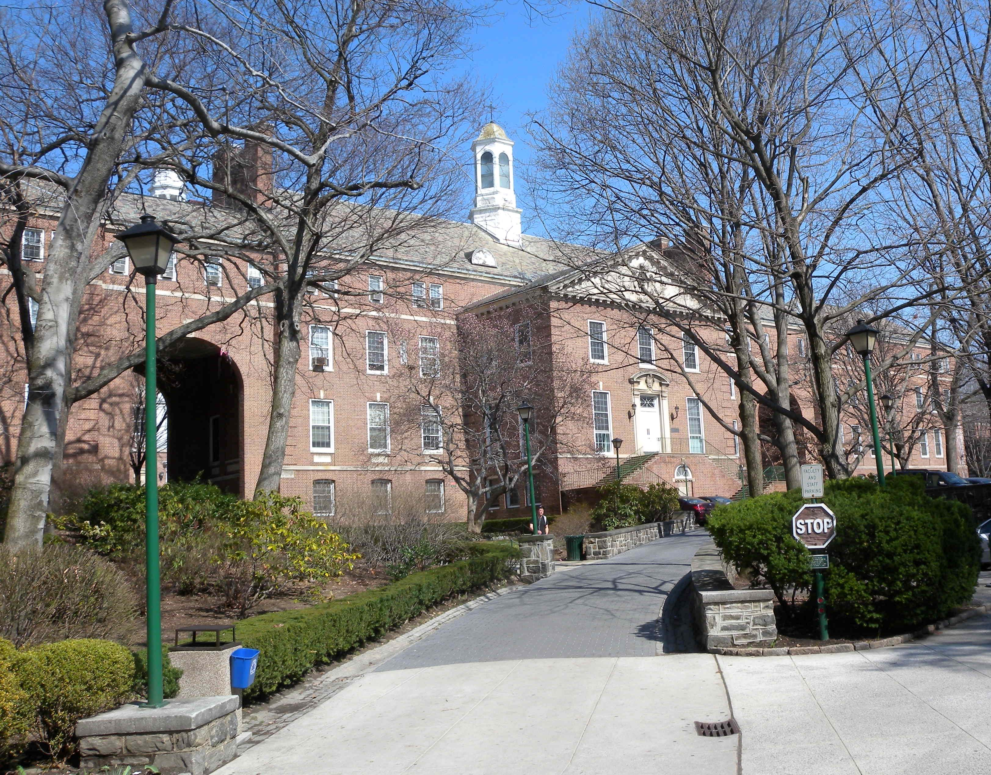 Looking northeast at Manhattan College facade on a mostly sunny midday. See also File:M C best 800.jpg